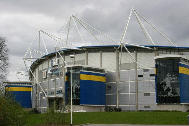 KC Stadium Photograph showing the now completed KC Stadium. Stadium is home to Hull City (Football)and Hull FC (Rugby League). The stadium is also used for concerts.